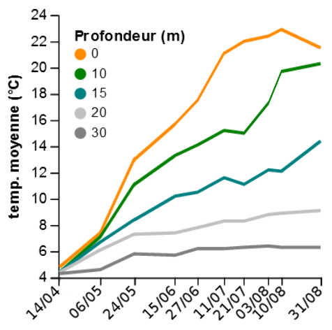 Japan: 2016 graph temperatures of the lake Chūzenji in Nikkō city (Tochigi prefecture).